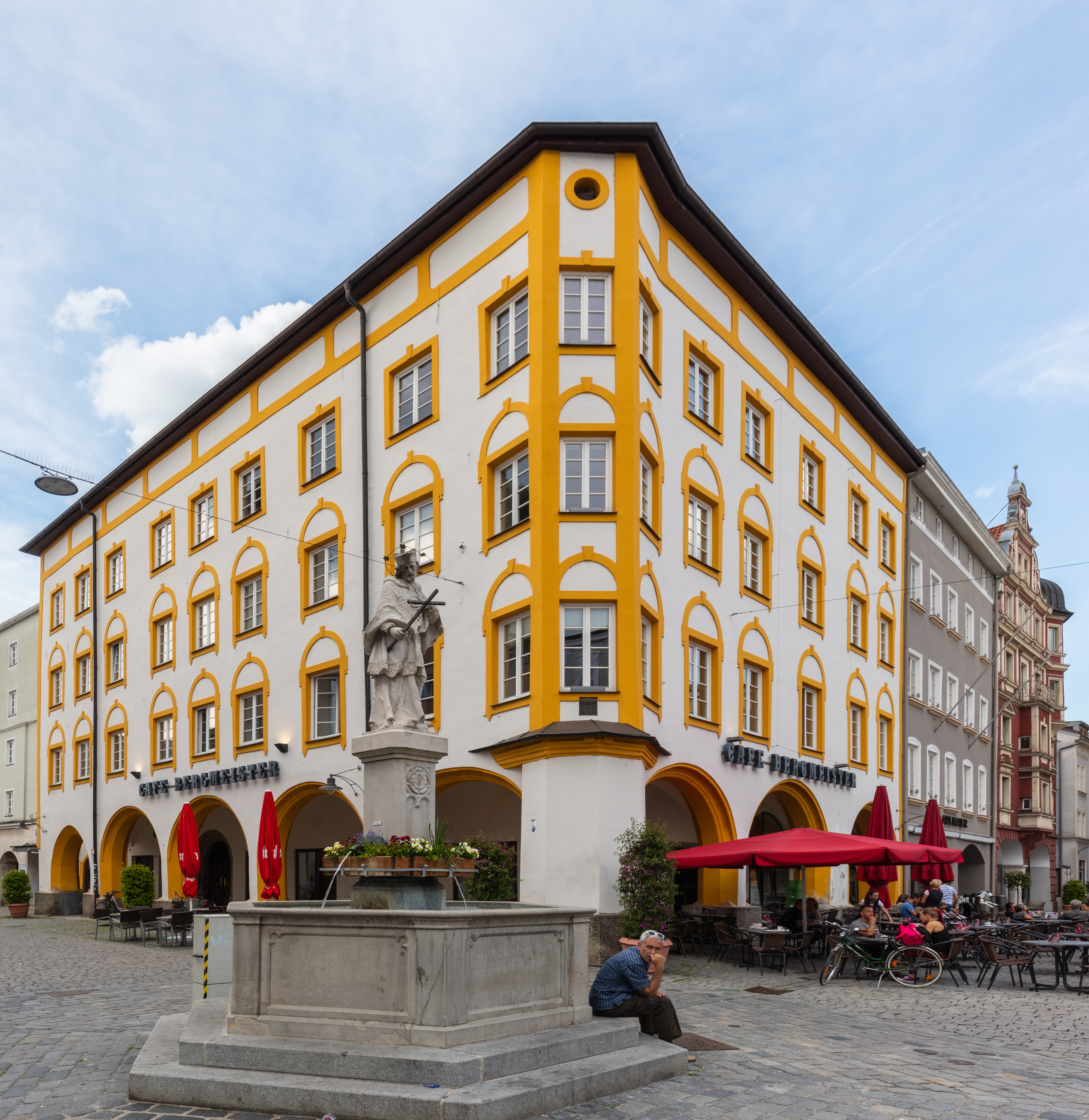 John of Nepomuk fountain, Rosenheim, Germany